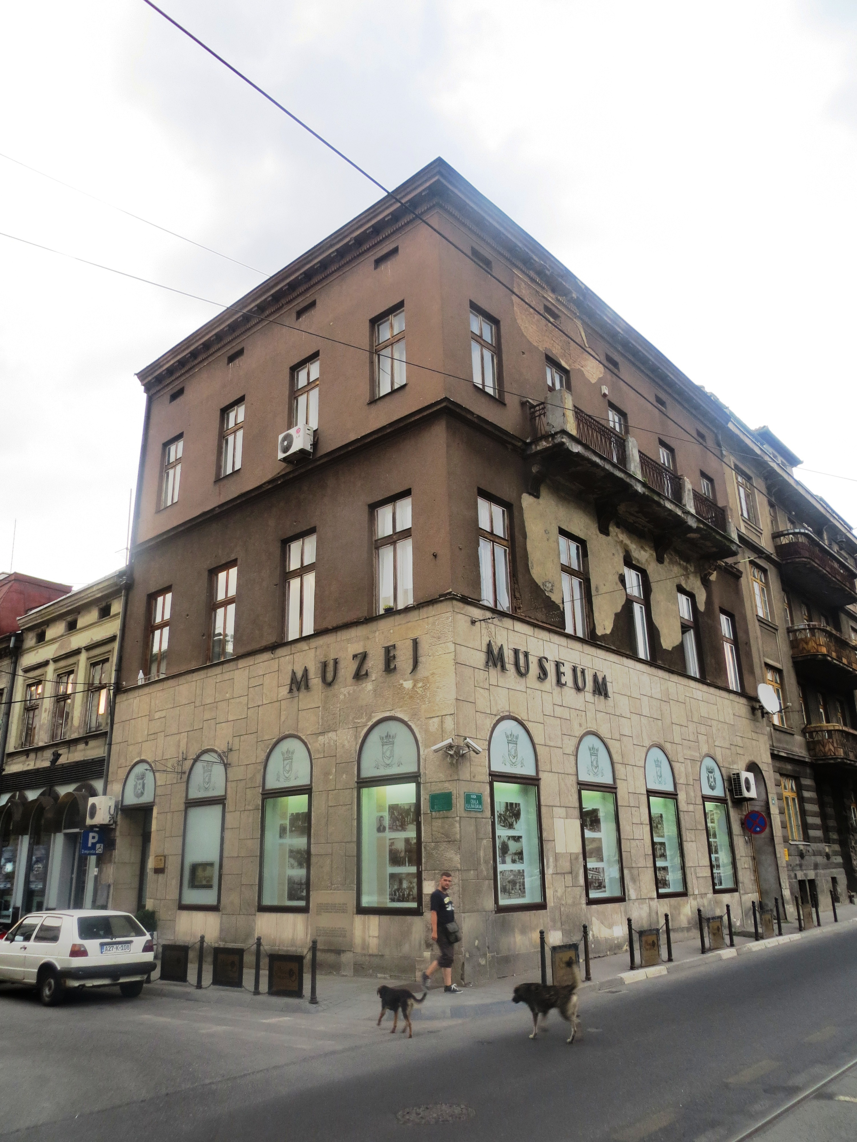 Part of old town of Sarajevo, Bosnia-Hercegovina. Buildings are at least 100 years old, thus not violating Freedom-of-Panorama.